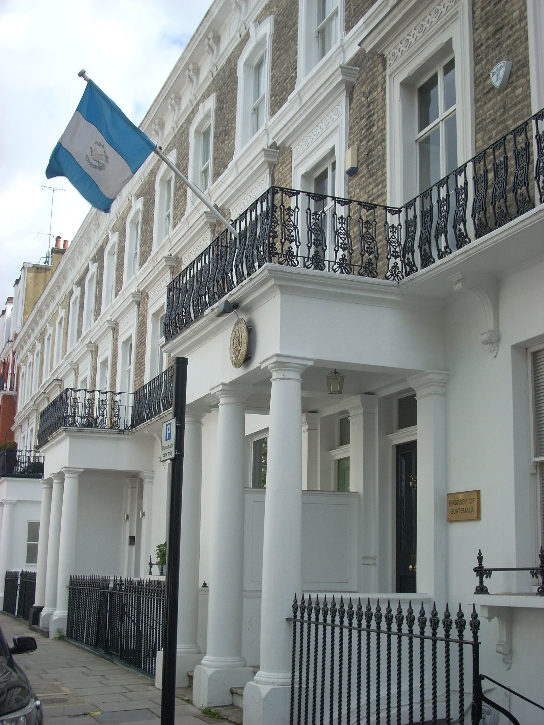 Guatemalan Embassy, Fawcett Street, West Brompton, London.